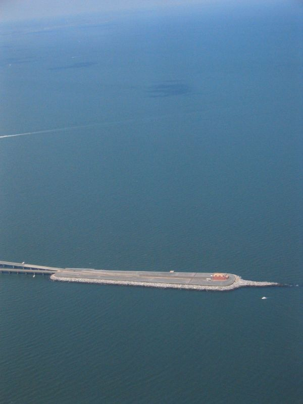 Aerial view of the Chesapeake Bay Bridge-Tunnel